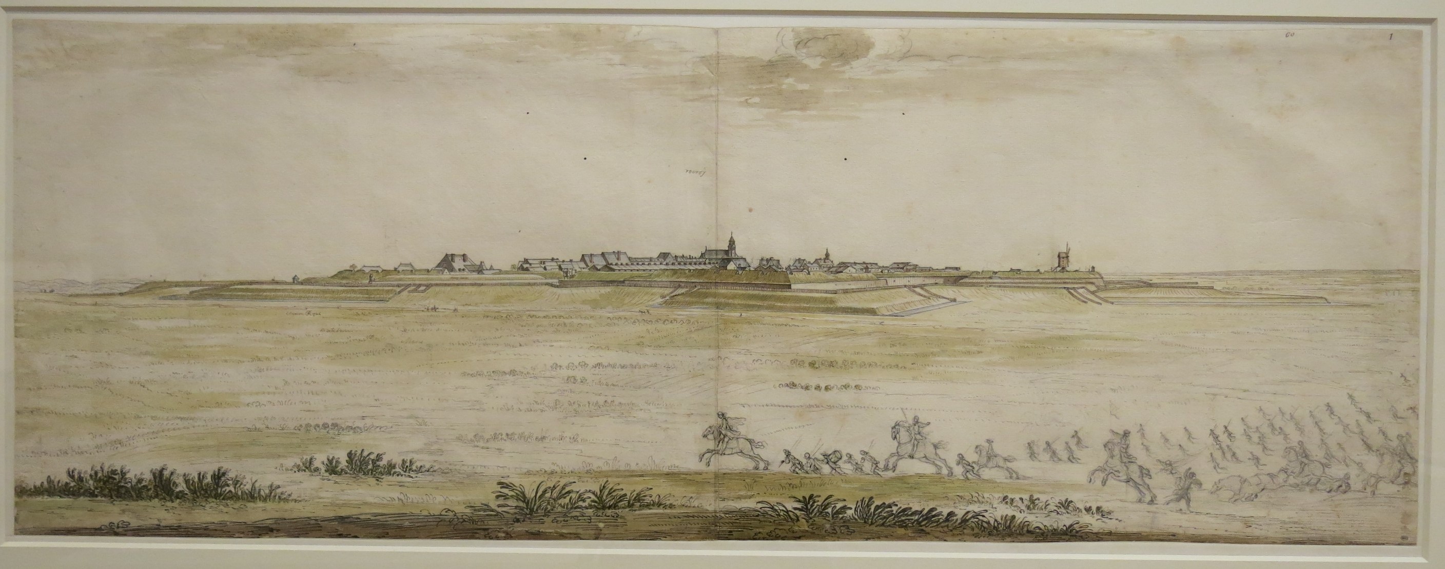 Engraving of the city and fortifications of the town of Rocroi (Ardennes, France).